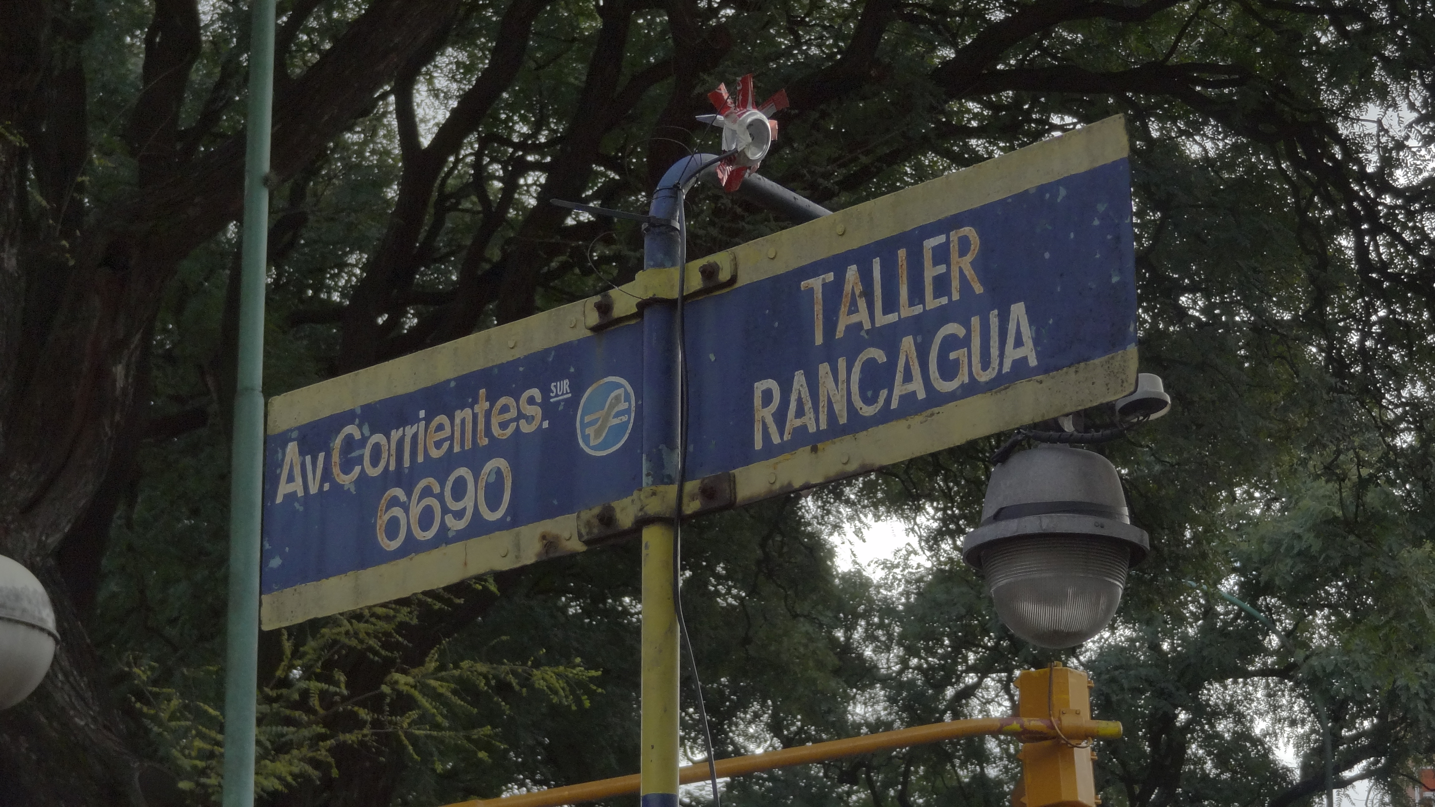 Access to Rancagua workshop, of the buenos aires metro